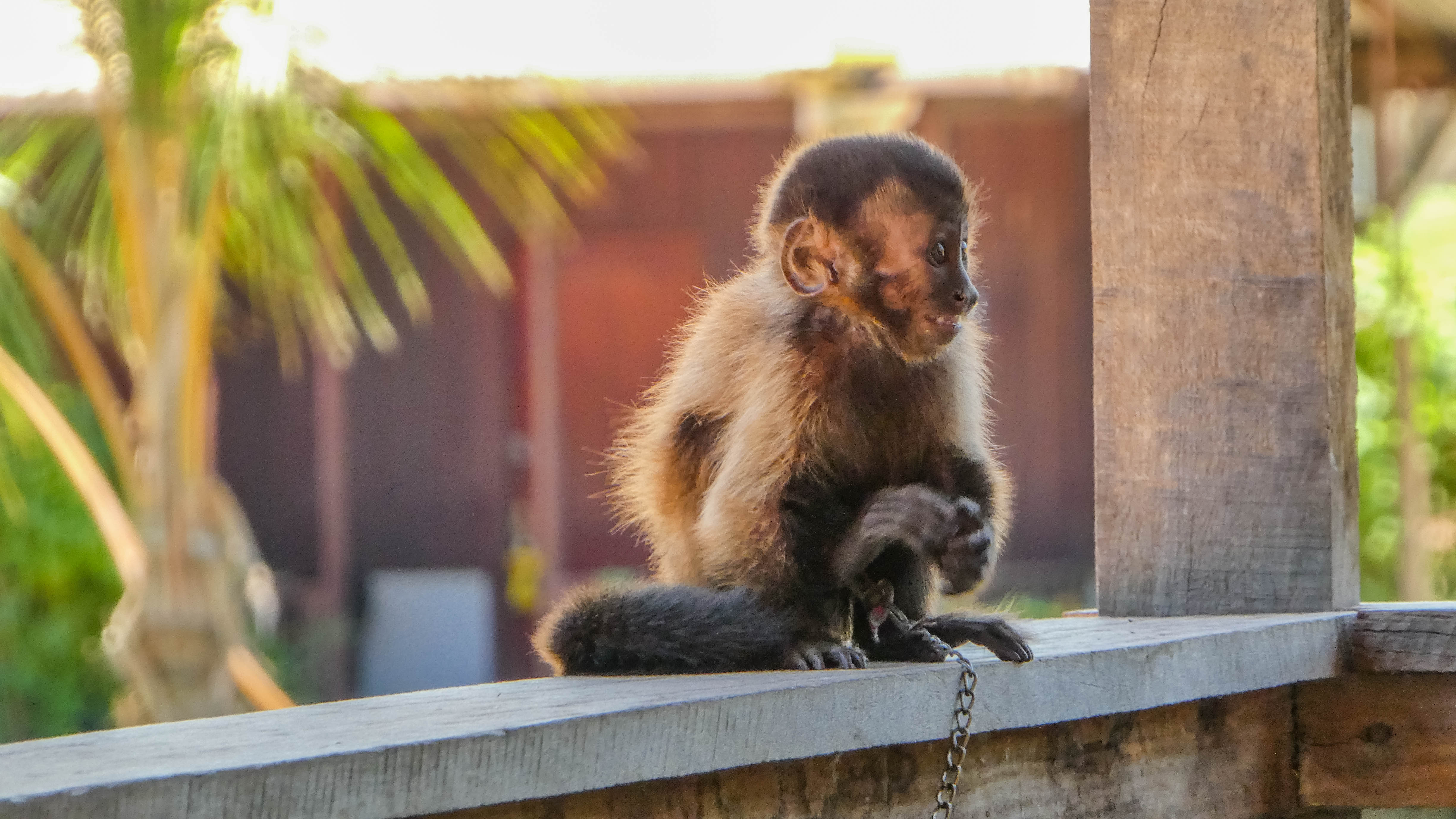 A monkey kept as pet in a local restaurant in Brownsweg